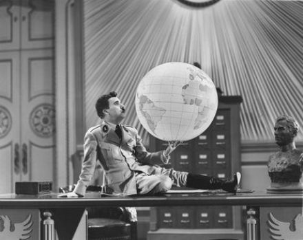 Charlie Chaplin from the film The Great Dictator (1940).